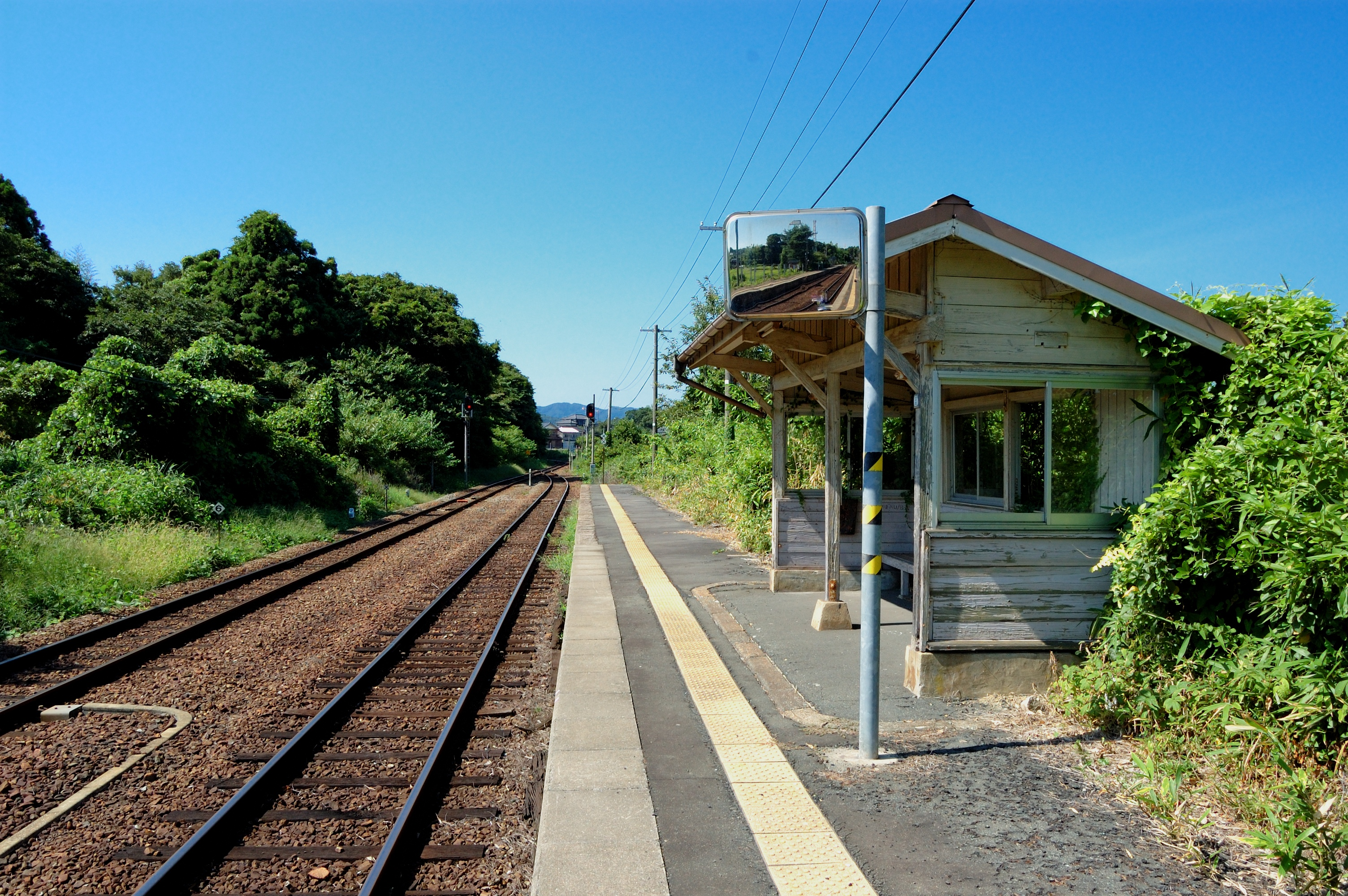 This picture was Taken by platform of Tangokanno Sta.